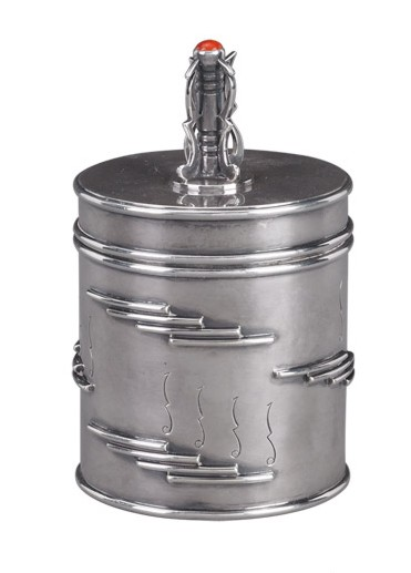 English Silver Covered Box by Henry George Murphy, London, 1936, Falcon Studio height 11.50 cm